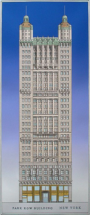 Simon Fieldhouse created this drawing.See